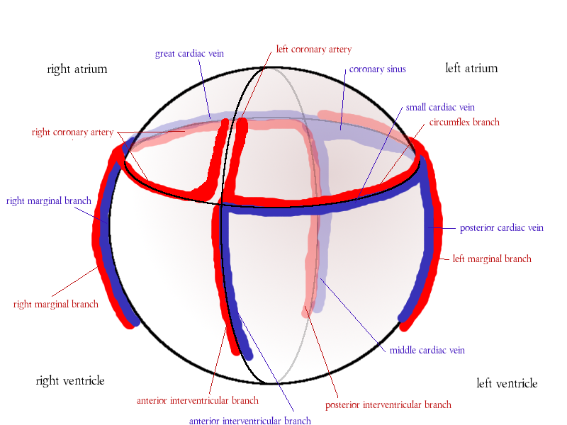 Schematic of the coronary blood vessels